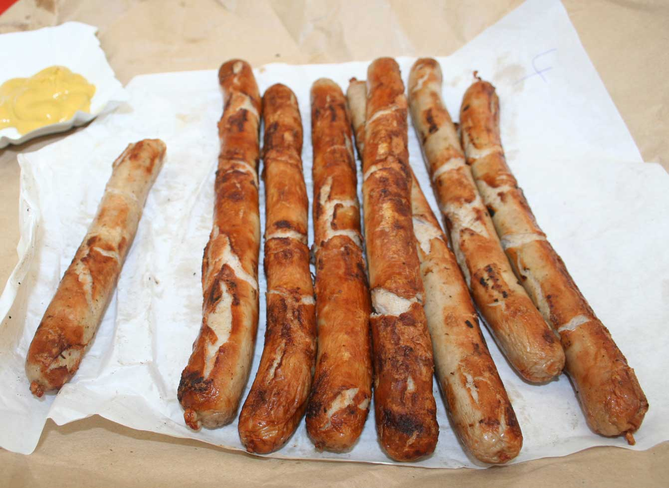 Stabenwurst